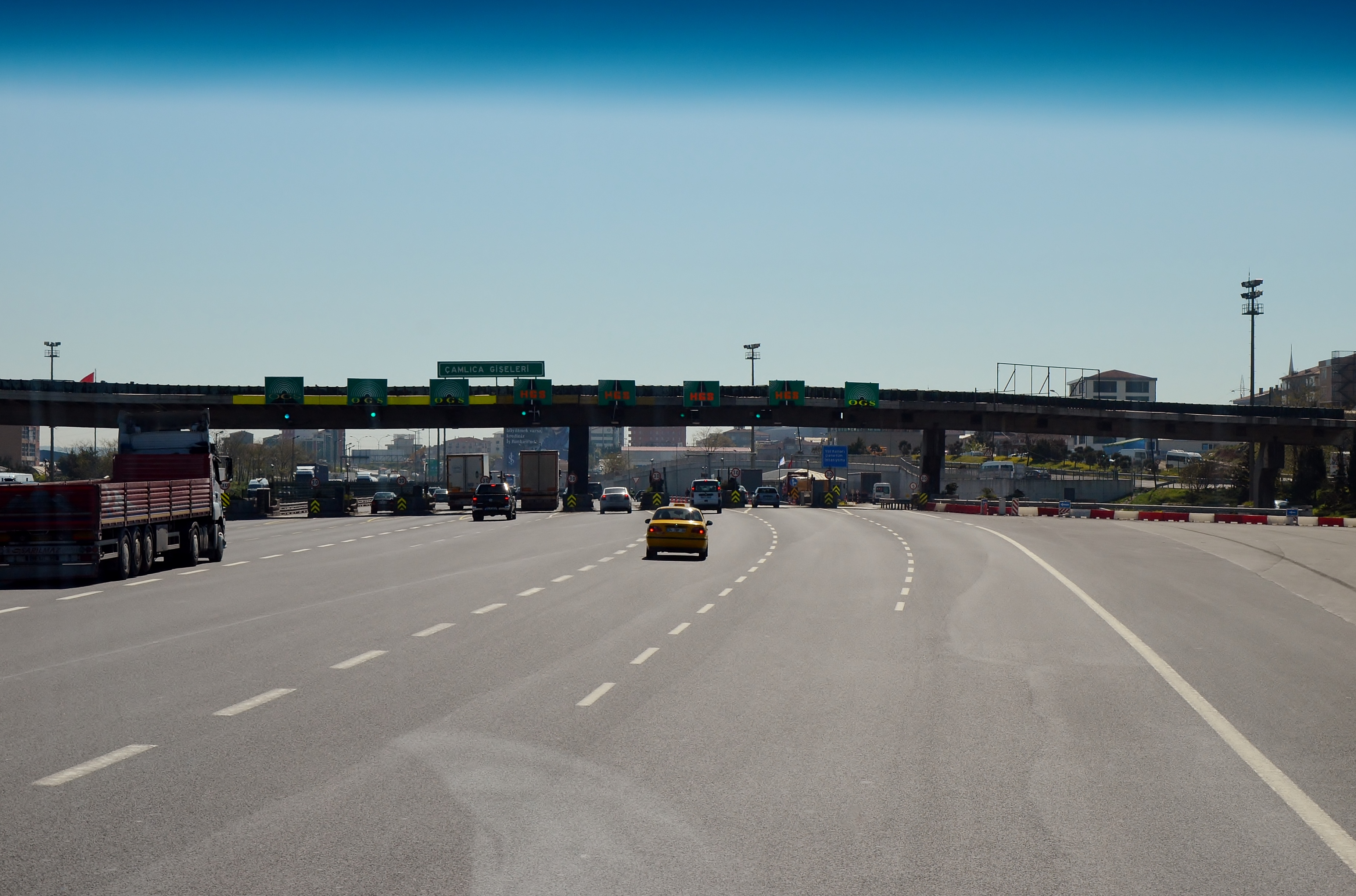 Çamlıca Toll Plaza on the Motorway O-4 eastbound in Istanbul Province, Turkey